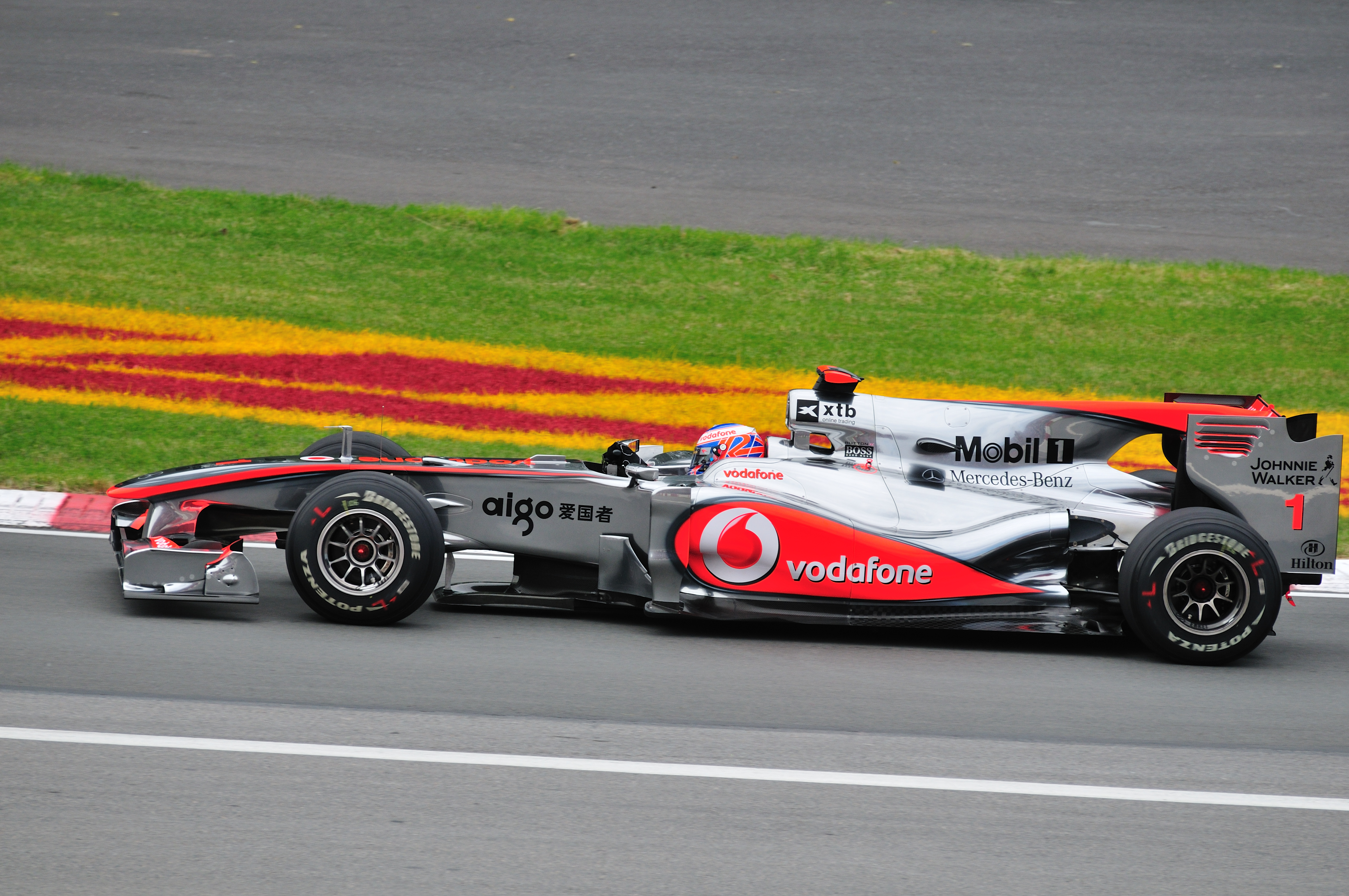 Jenson Button driven McLaren MP4-25 at canada GP 2010